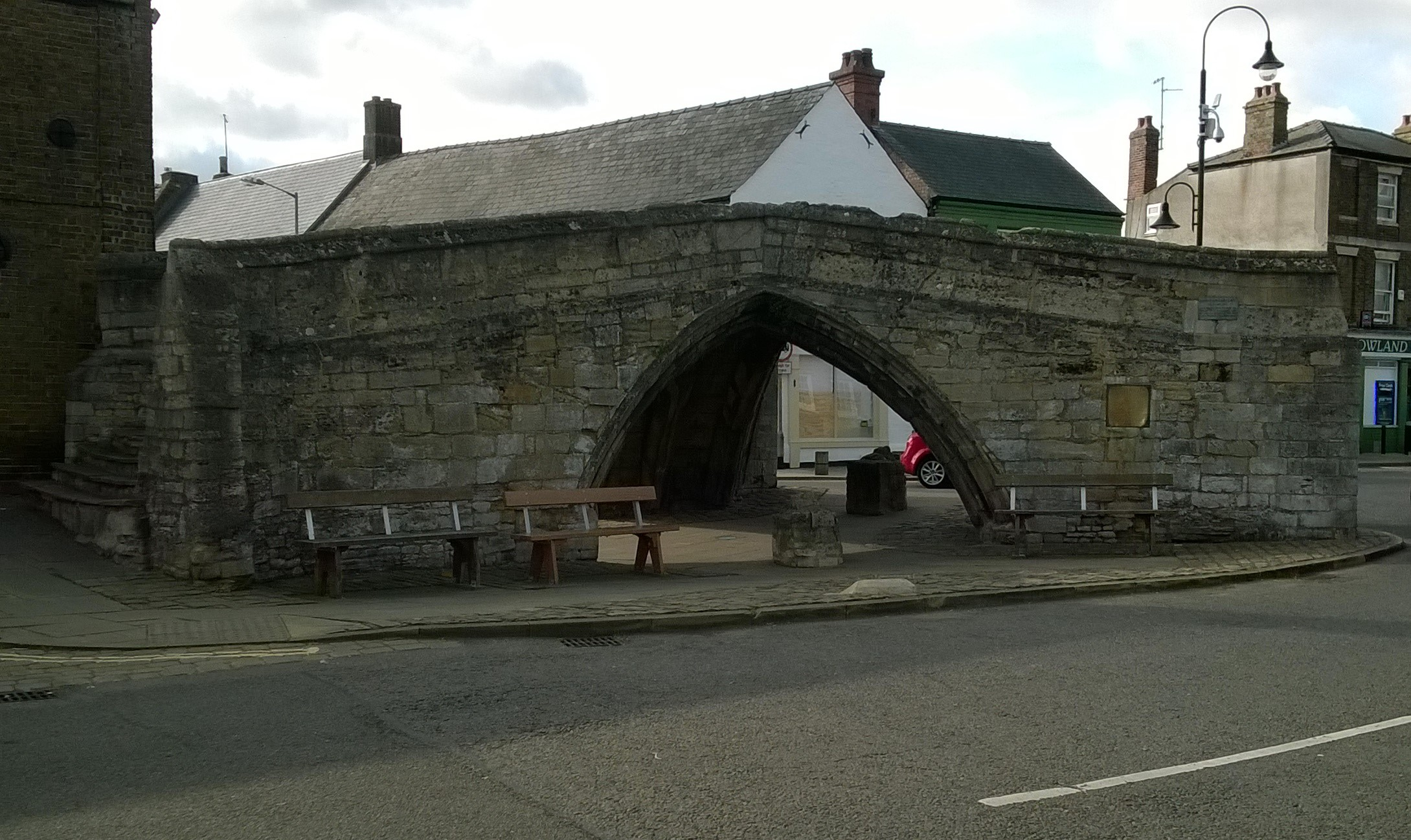 A unique three way bridge which used to sit over the junction of two rivers but now stands in the centre of the village.